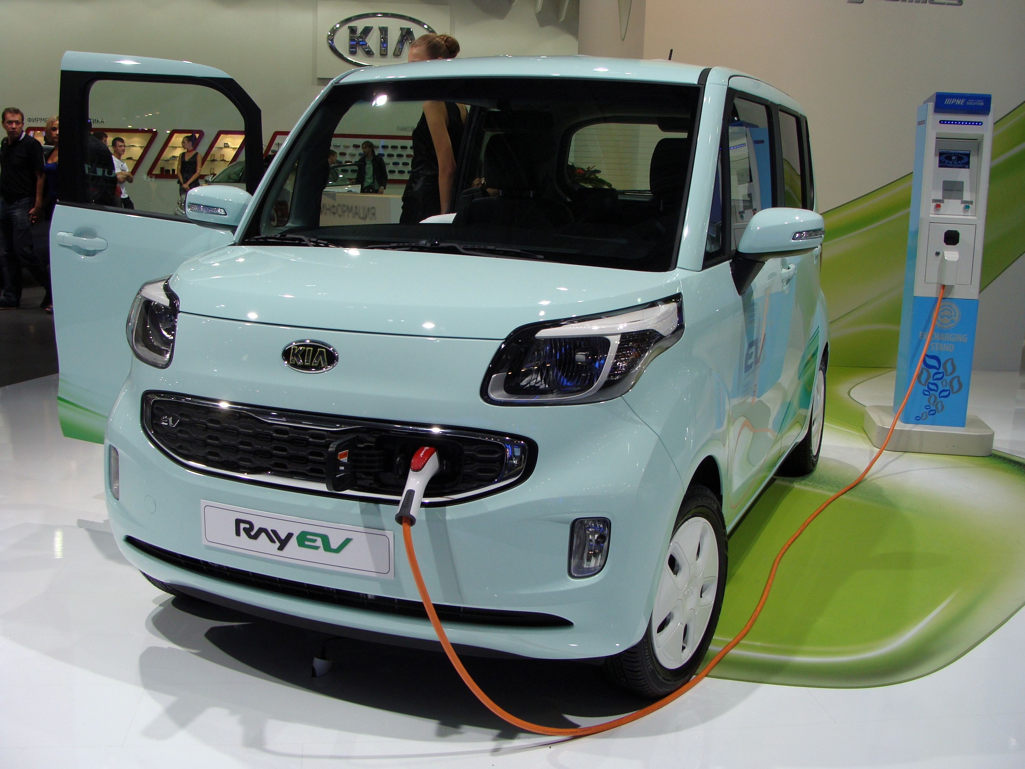 Electromobile KIA Ray EV on Moscow International Automobile Salon 2012.